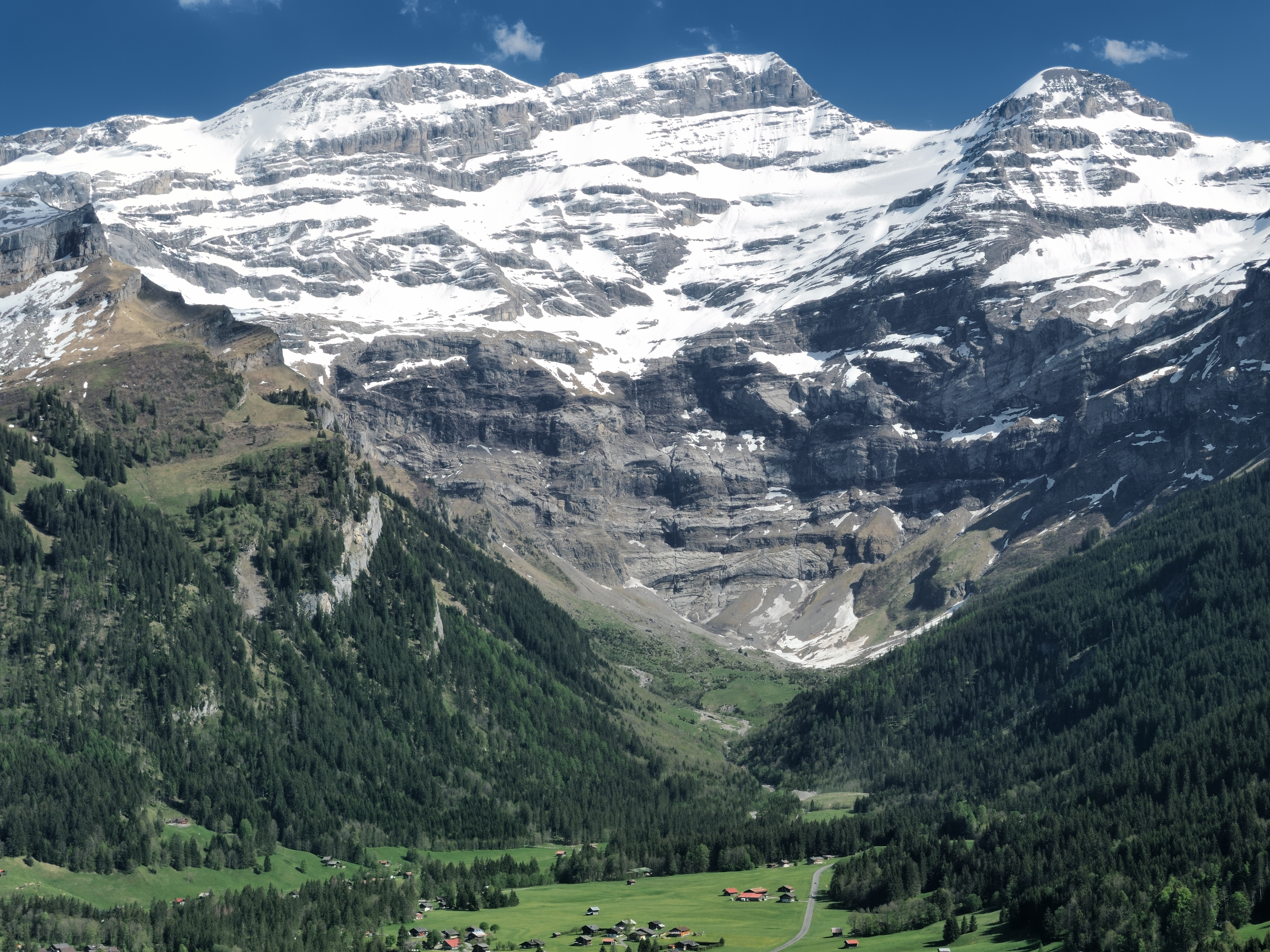 Diablerets north wall